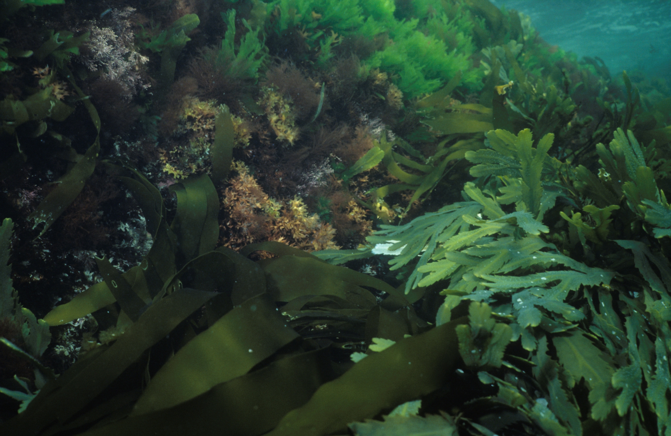 Algae forest in Yttre Vattenholmen, close to Kosterhavet national park. Laminaria (in front), Fucus serratus (right)